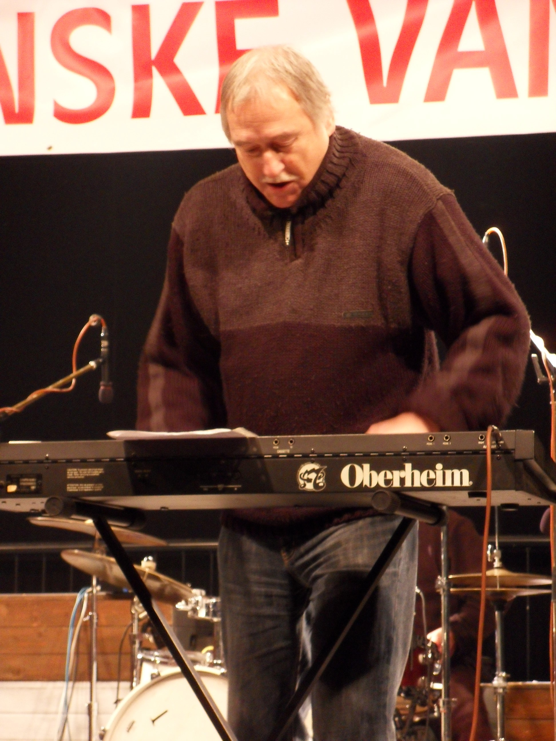 Oldřich Veselý, keyboardist and vocalist of czech rock band E-Band, Brno, Czech Republic